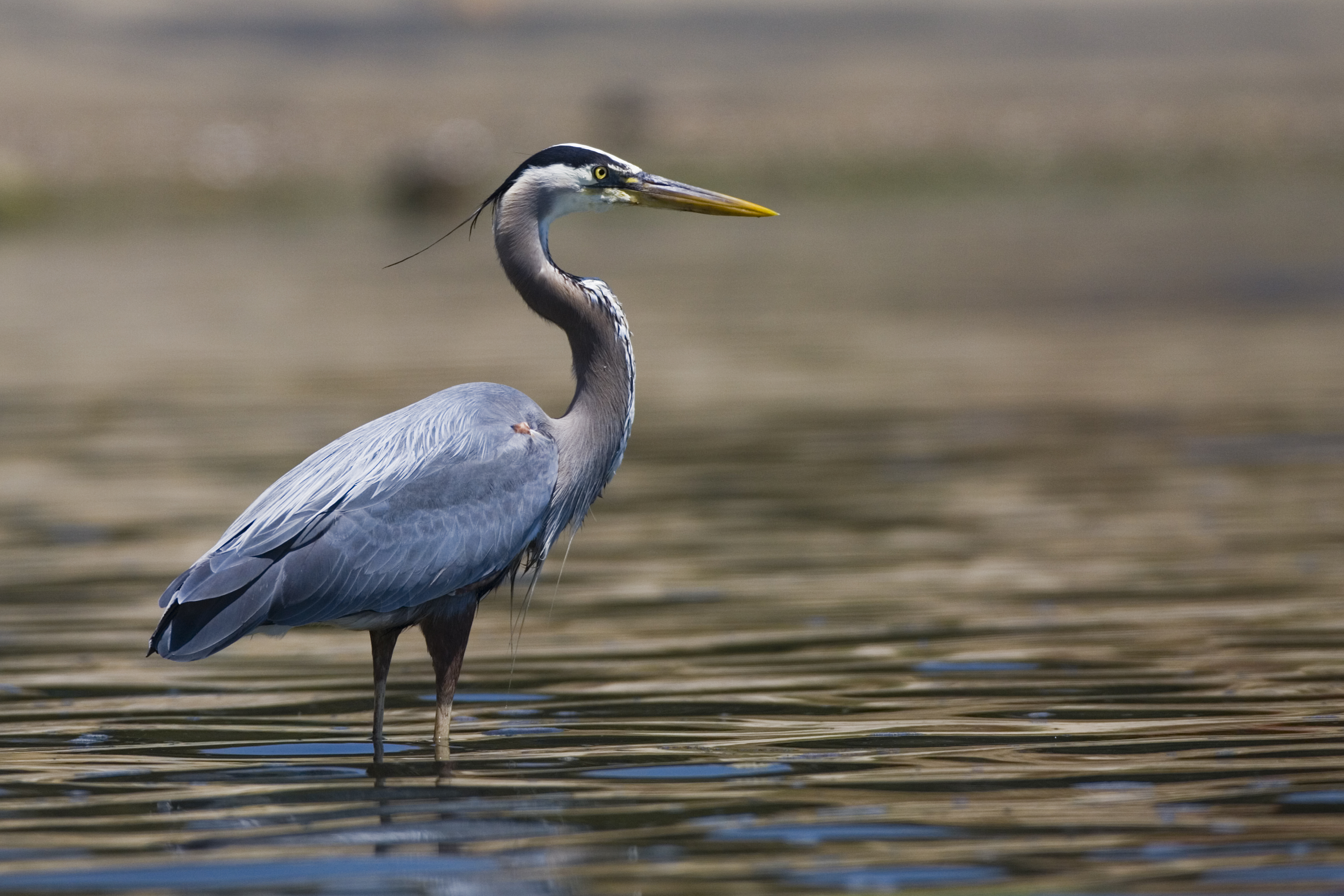 Great Blue Heron (Ardea herodias) in Morro Bay, CA 08 May 2007, photographed at Coleman Beach at low tide. Canon 5D w/ 600mmIS on sturdy tripod